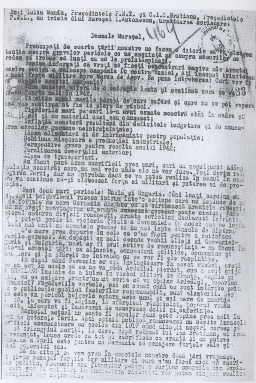 Transcript of a memorandum sent by Romanian politicians Iuliu Maniu and Dinu Brătianu to the country's World War II dictator Ion Antonescu, in which they express concerns over wartime policies.